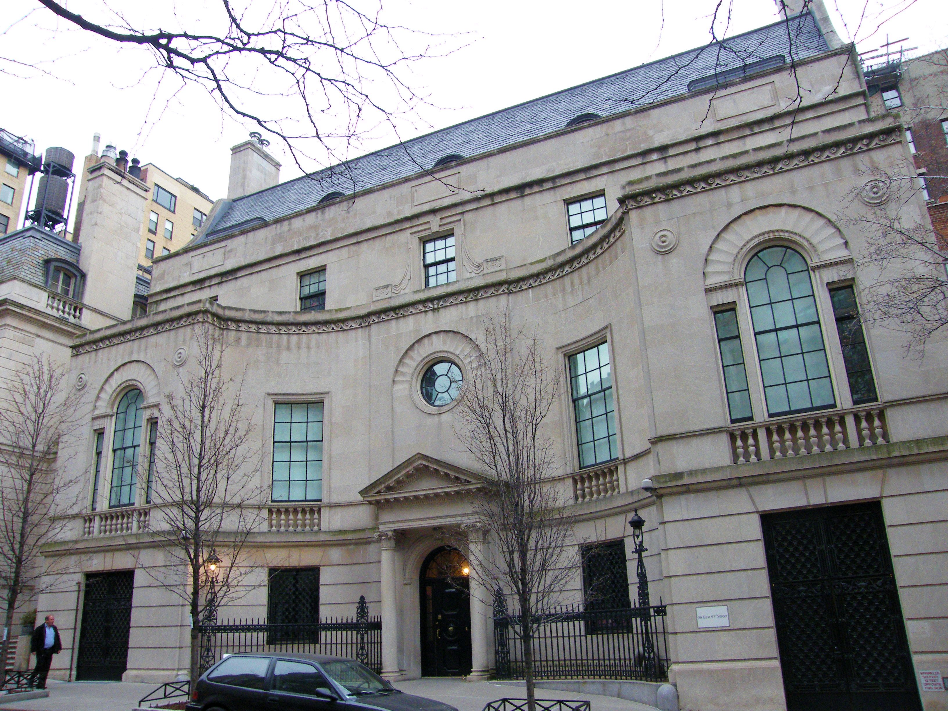 Loew Goadby House, now the Spence School, on National Register of Historic Places at 56 East 93rd Street In New York City. NYCLPC designation 1972; Guidebook map 16.